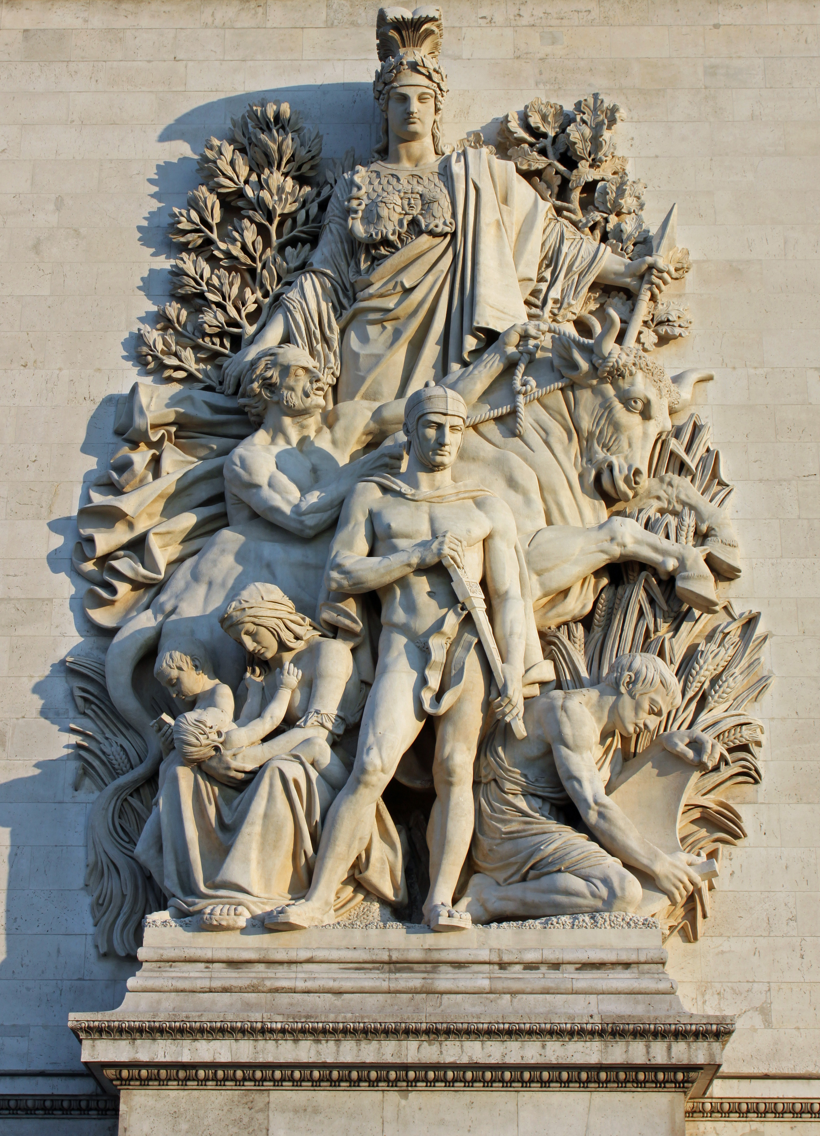 La Paix de 1815, bas-relief by Antoine Étex on the Arc de triomphe de l'Etoile, Paris.